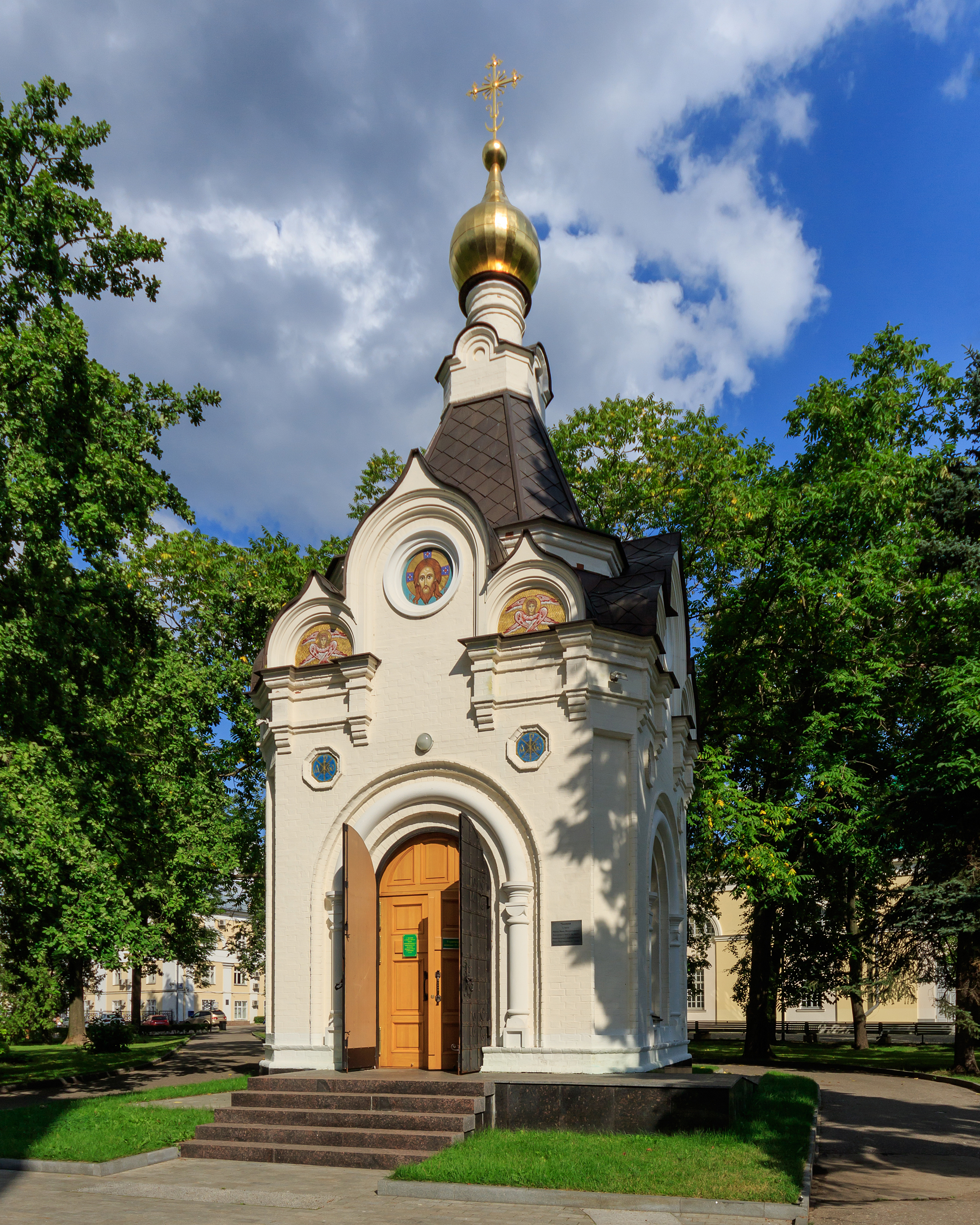 Chapel in the Kremlin in Nizhny Novgorod, Russia